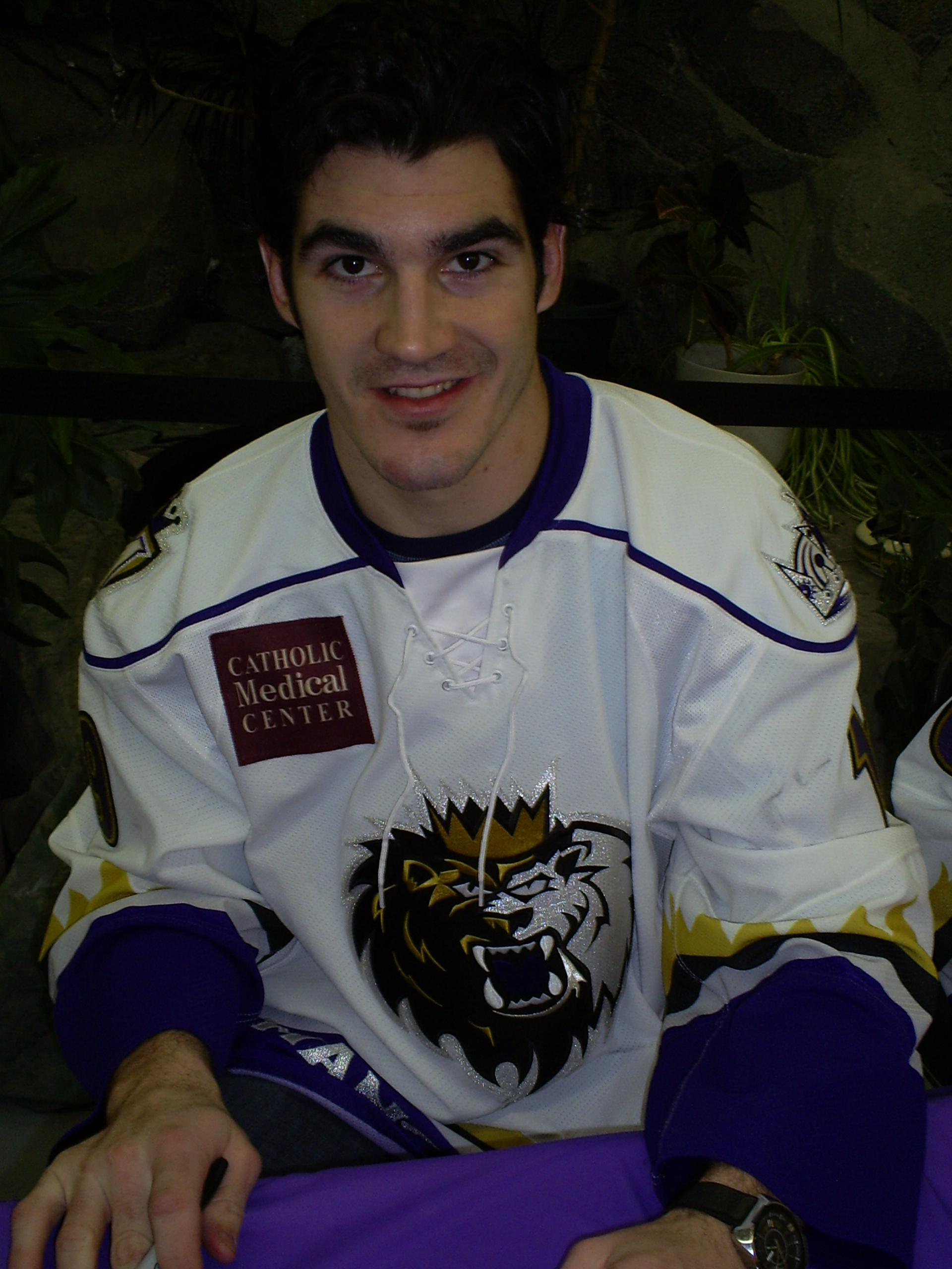 Photo by Craig Michaud.This is Brian in 2009 while playing for the Manchester Monarchs.